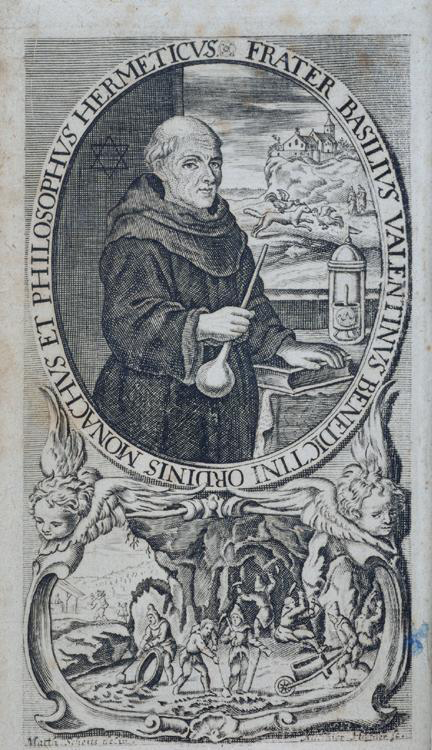 Frater Basilius Valentinus, Frontispiece from Basilius Valentinus, Chymische Schrifften, anjetzo zum vierdten mahl zusammen gedruckt, aufs fleissigste aus einigen alten MS. gecorrigiret, mit vielen in vorigen Editionen ausgelassenen Passagen und Tractaten, auch etlichen Figuren, vermehret mit einem generalen vollständigen Register versehen, und in drey Theile verfasset / ... Basilius Innovatus, das ist, Fr. Basilii Valentini, Ordin. Benedict. Chymische Schrifften ... nebst einer neuen Vorrede, worinnen von Lesung und Critique der Alchymistischen Schrifften, ihren Scribenten, neuen Projections - Historien, der Materia Prima Philosophica, dem Leben des Basilii, und was in dieser Edition besonders praestiret worden einige Nachricht mitgetheilet wird von Bened. Nic. Petraeo. Hamburg : Samuel Heyle, 1717. A man wearing a monk's robe with a tonsure stands, facing right, holding a piece of glassware in his left hand; his right hand rests upon a book. The legend around the portrait reads: "FRATER BASILIVS VALENTINVS BENEDICTINI ORDINIS MONACHVS ET PHILOSOPHVS HERMETICVS", or "Brother Basil Valentine, Monk of the Order of St. Benedict and Hermetic Philosopher". On the table, the Philosopher's stone (symbolized as a basilisk) rests in a philosophical egg. Further alchemical imagery is shown behind and below him.